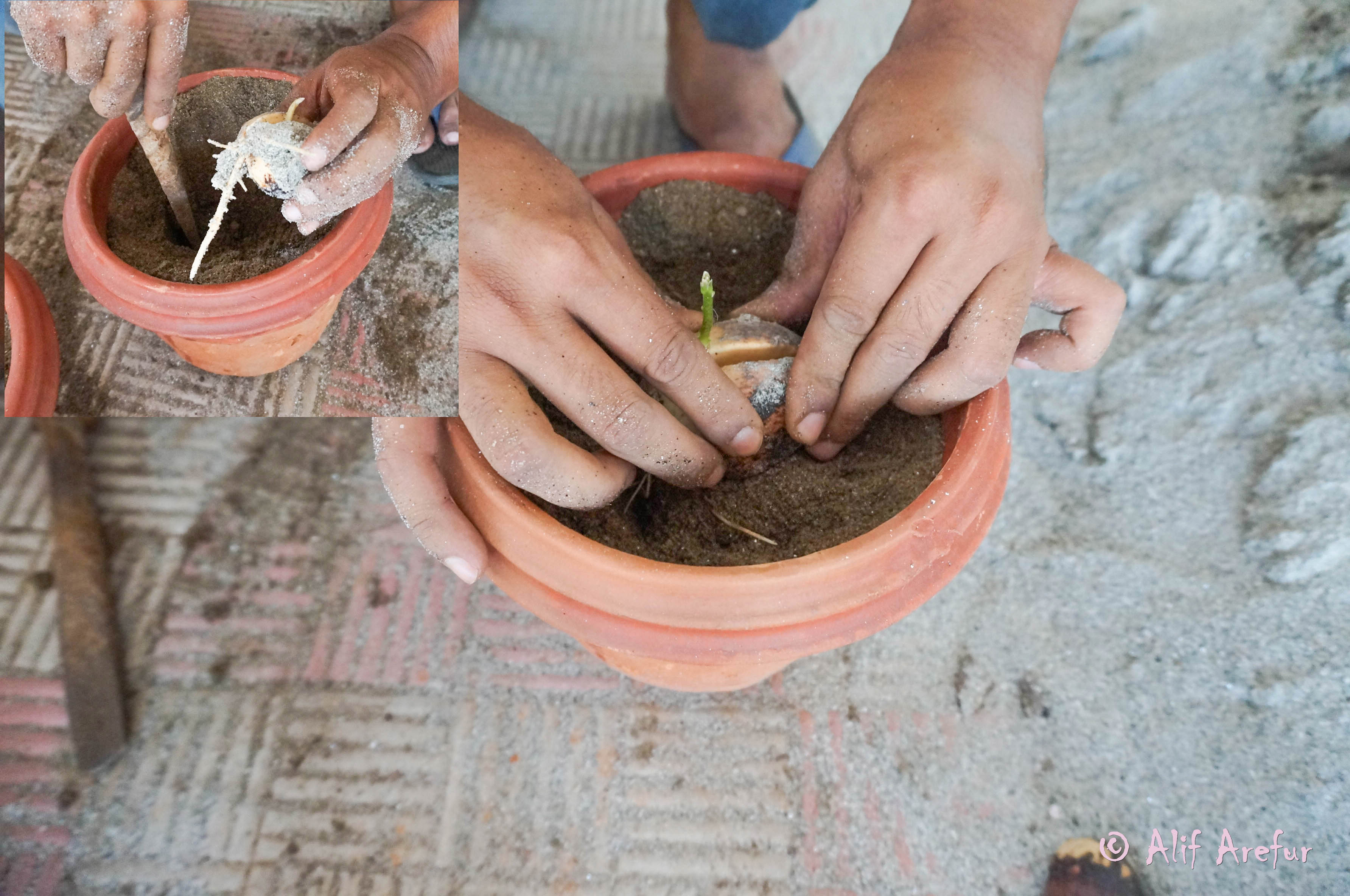 Avocado seed transplanting in pot at Malik's Farm